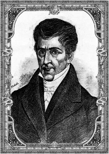 José Cecilio del Valle, Minister of Mexico